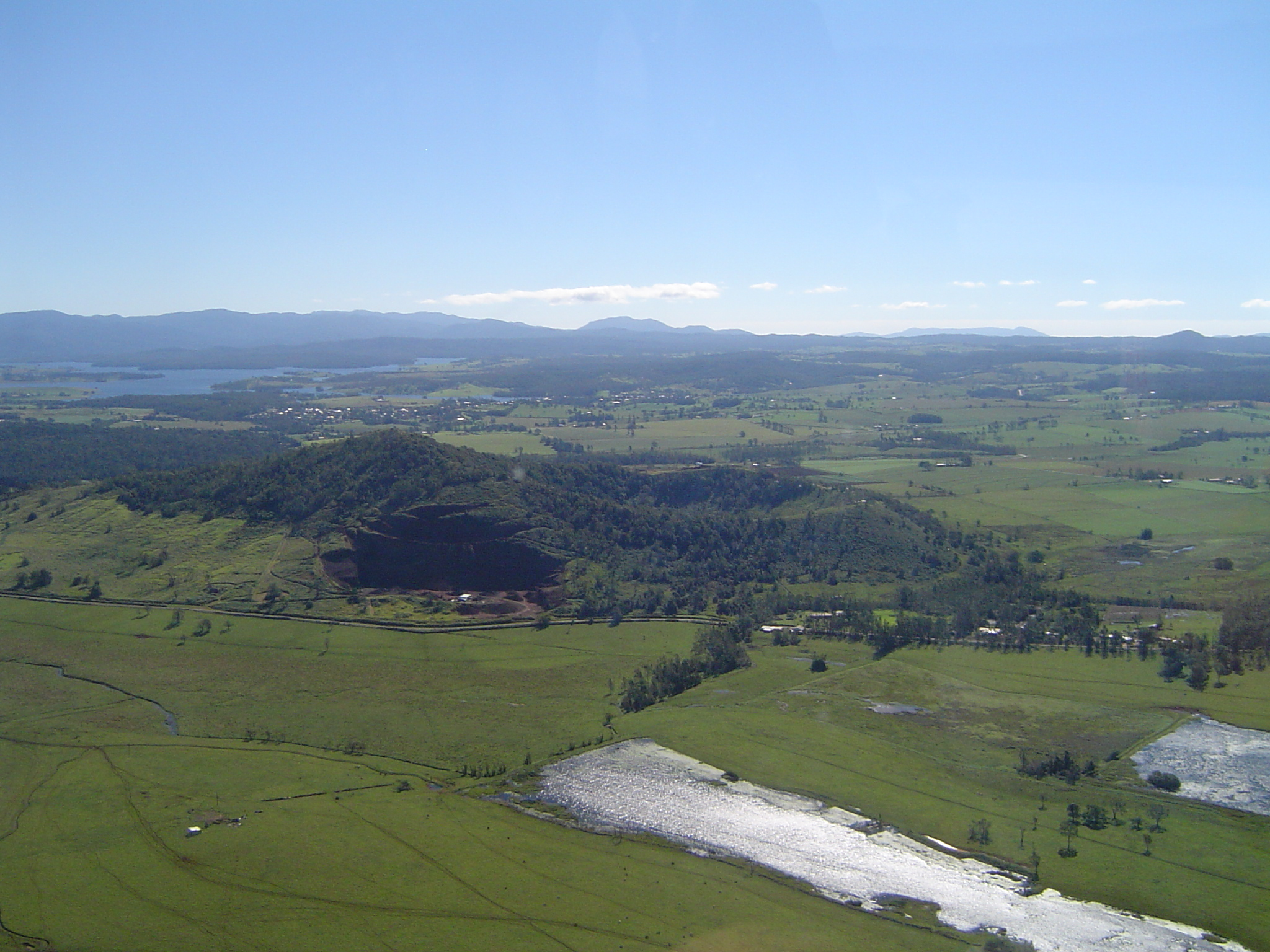 Aerial view of Mt Quincan, viewed from the south.